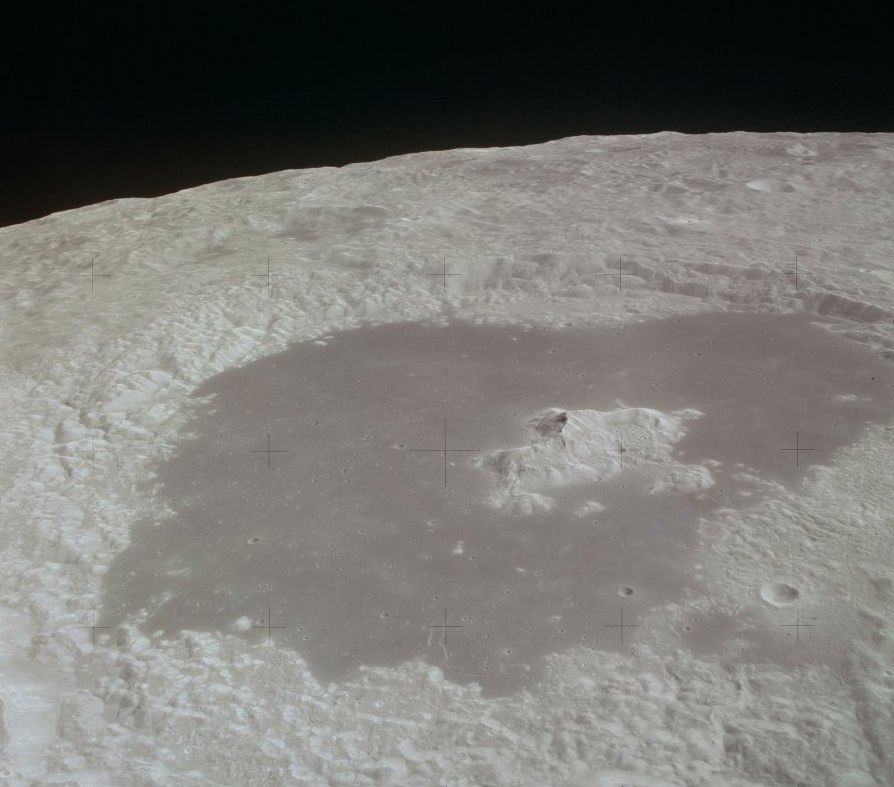 An aerial view taken of Tsiolkovskiy crater on the far side of the Moon taken on the Apollo 15 mission in 1971.